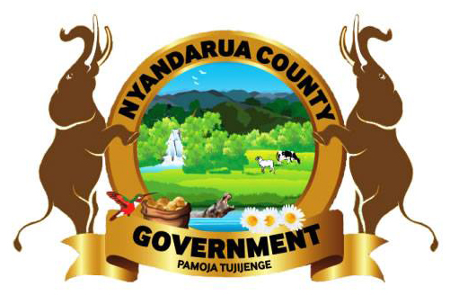 Coat of Arms of Nyandarua CountyKiswahili: Nembo ya Nyandarua County